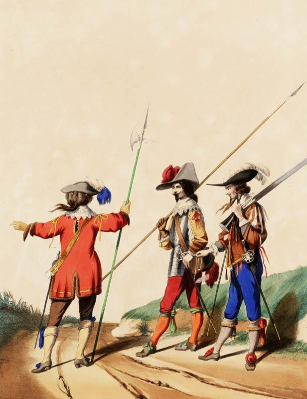 French guard regiment. Sergeant, Piker, Musketeer.